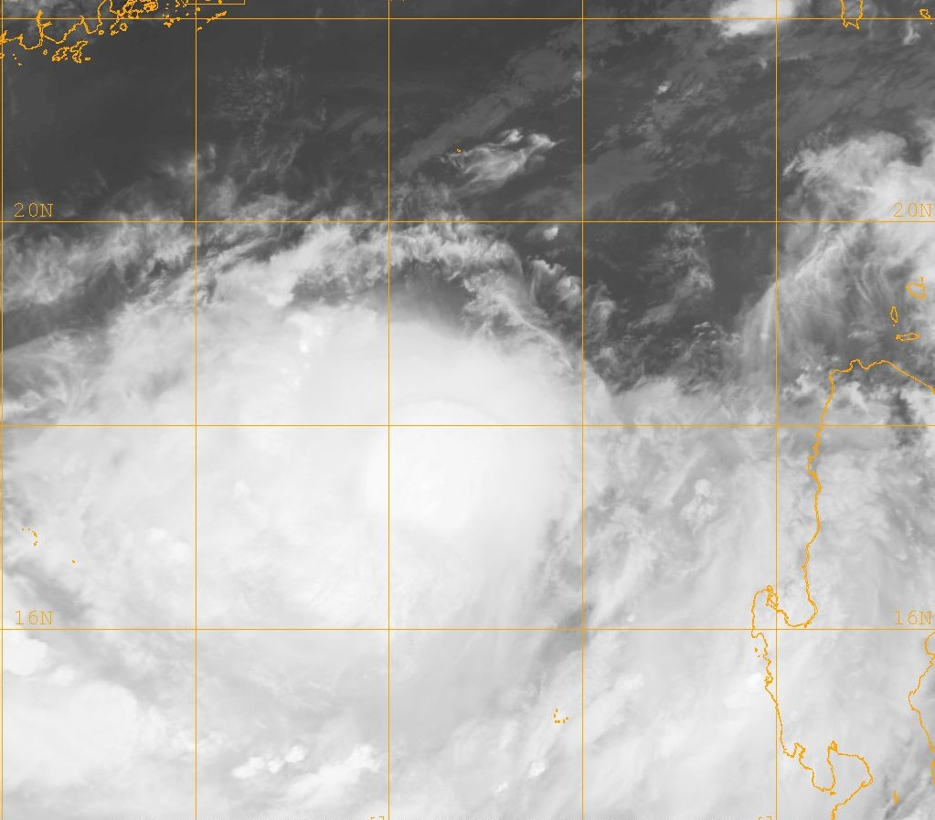 TS Linfa on June 18